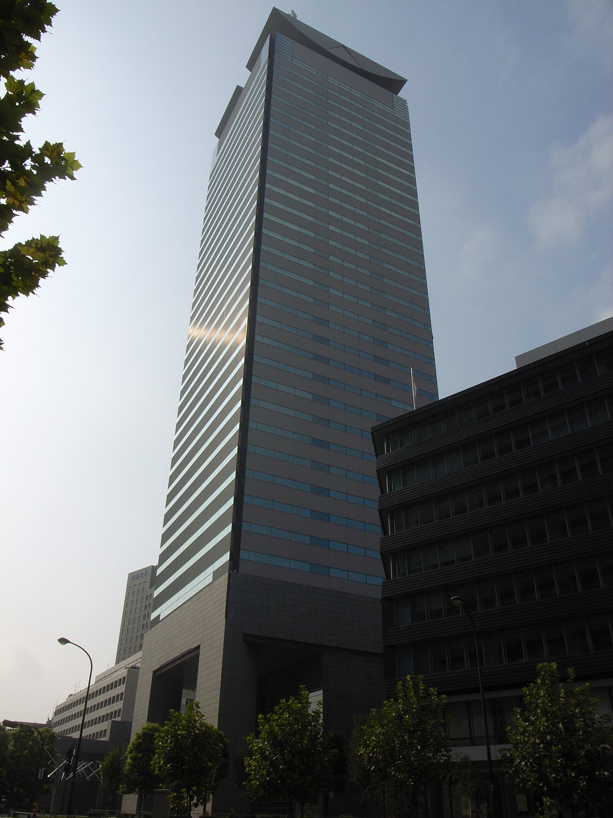 Japan Tabacco Headquarters / 日本たばこ本社（JTビル）